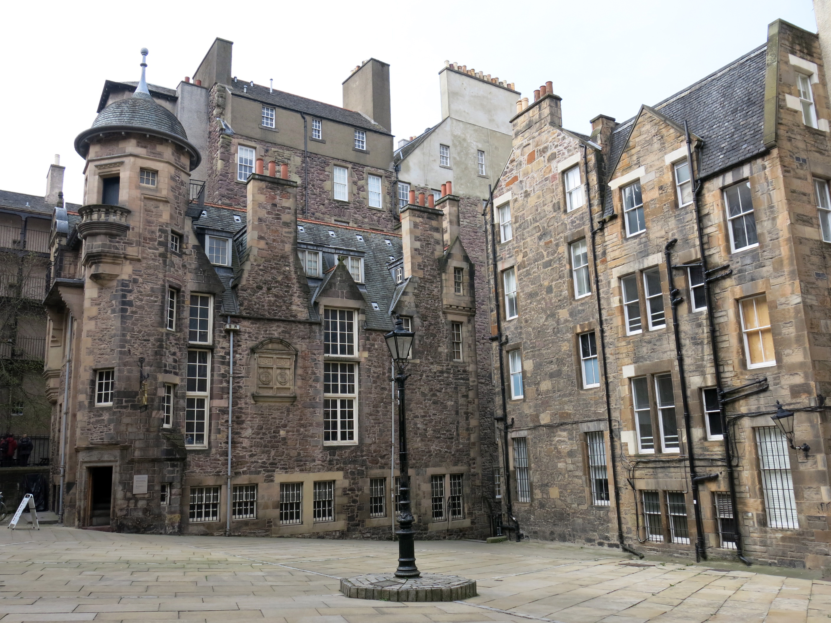 Edinburgh, Edinburgh, Lawnmarket, Lady Stair's Close, Lady Stair's House.